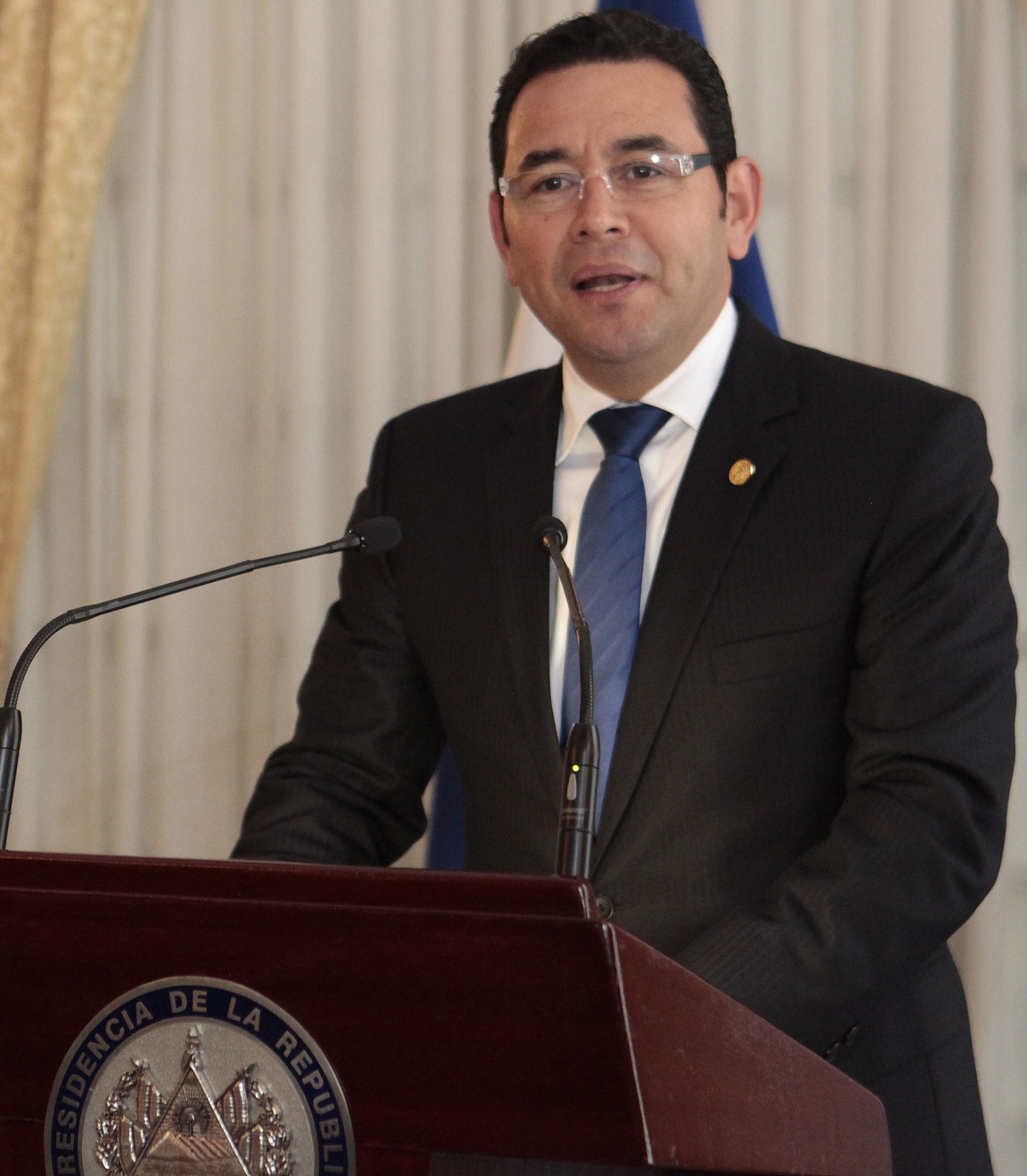 Presidente de Guatemala, Jimmy Morales .